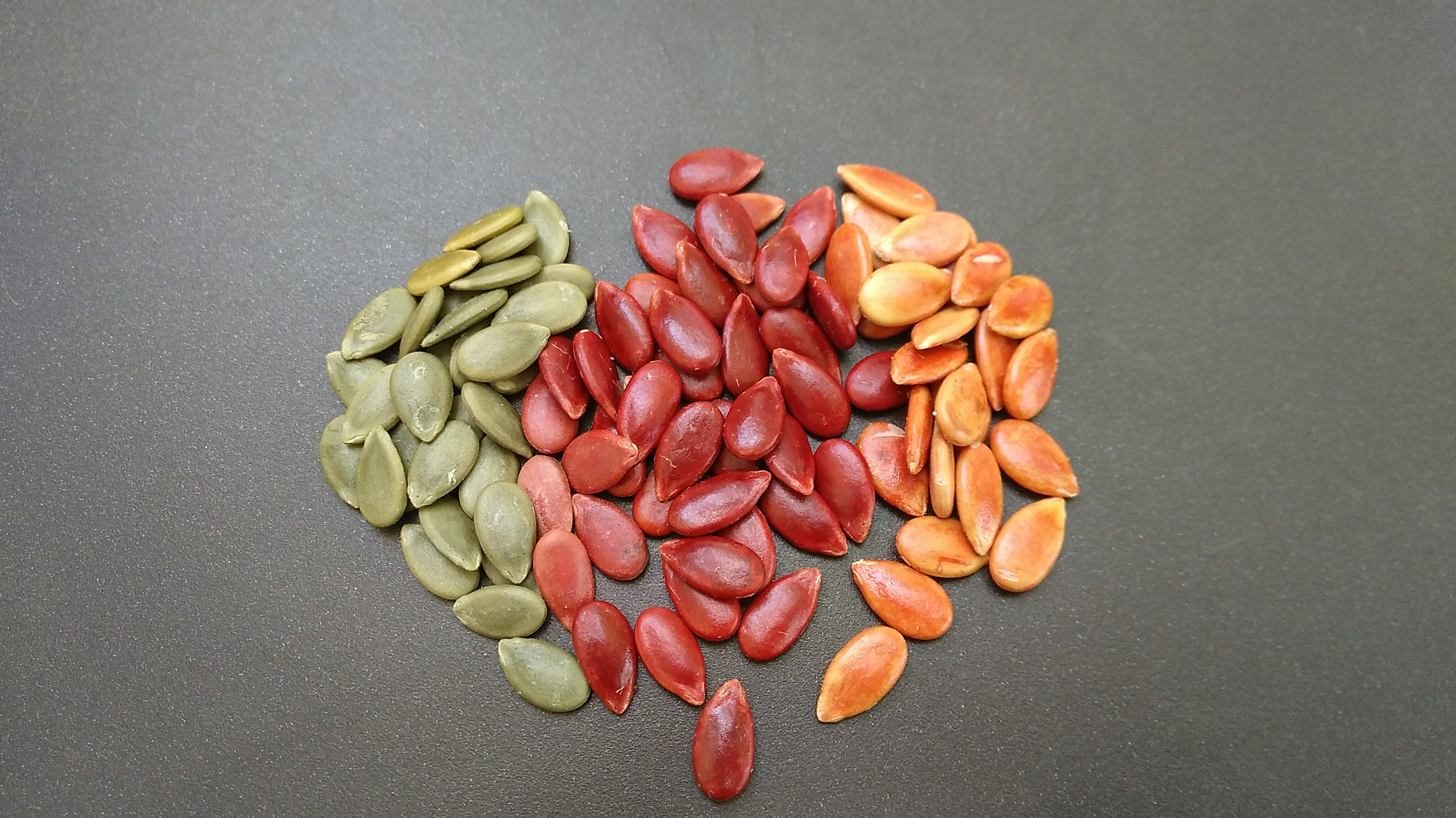 Citron melon seeds (Citrullus lanatus var. citroides or Citrullus caffer) in multiple colours. The green-seeded variety is distinct from the others, but the red and pale-orange seeds might be from a single variety (the difference in tones could be caused by a difference in maturity).